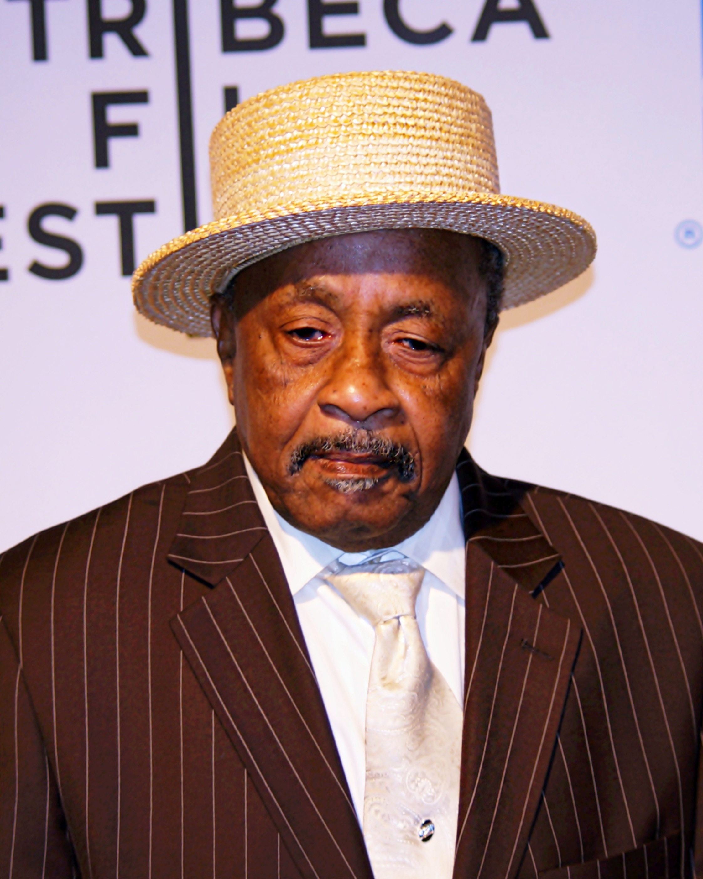 The Mighty Hannibal attending the premiere of The Union at the 2011 Tribeca Film Festival